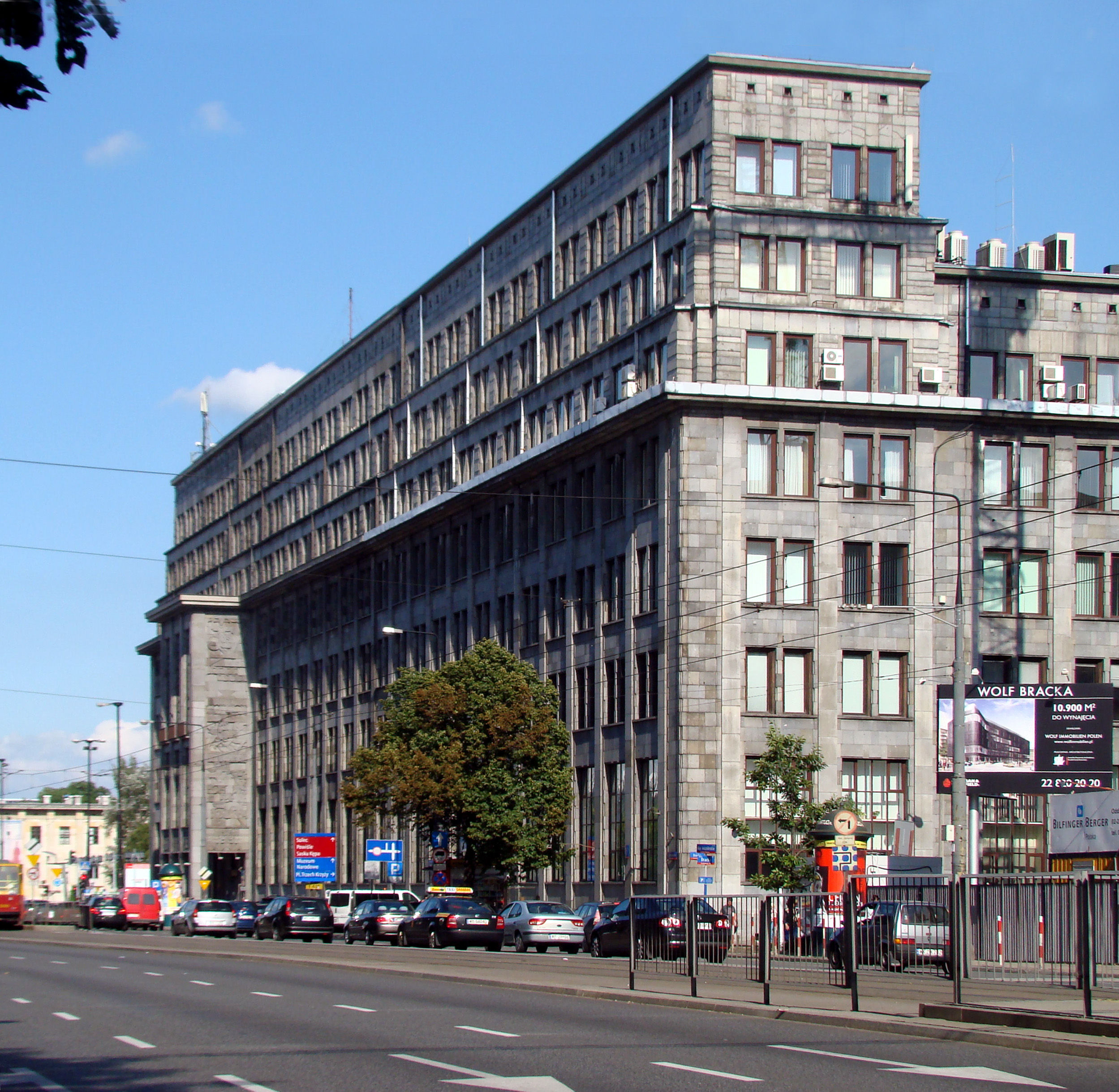 BGK building Warsaw, front view